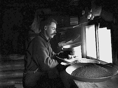 A gold miner at work in Klondike, approximately in 1898 (during the Klondike Gold Rush.